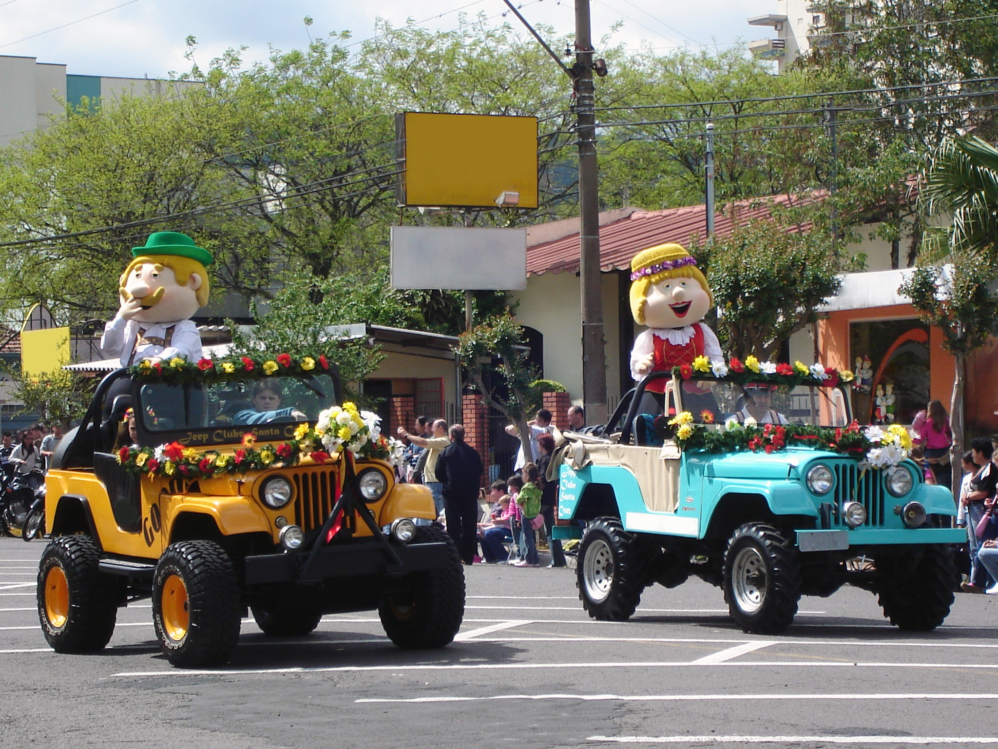 Fritz and Frida, the fest mascots, at Oktoberfest parade in Santa Cruz do Sul, Brazil.